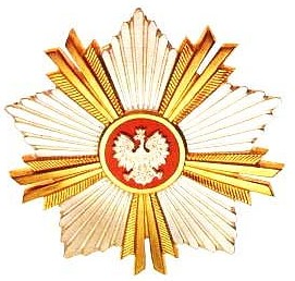 Order for Merits for Poland. The Grand Cross (Ist Class of an Order). Order Star. The Highest Civilian Order in Poland for foreign citizens. Official Pattern.